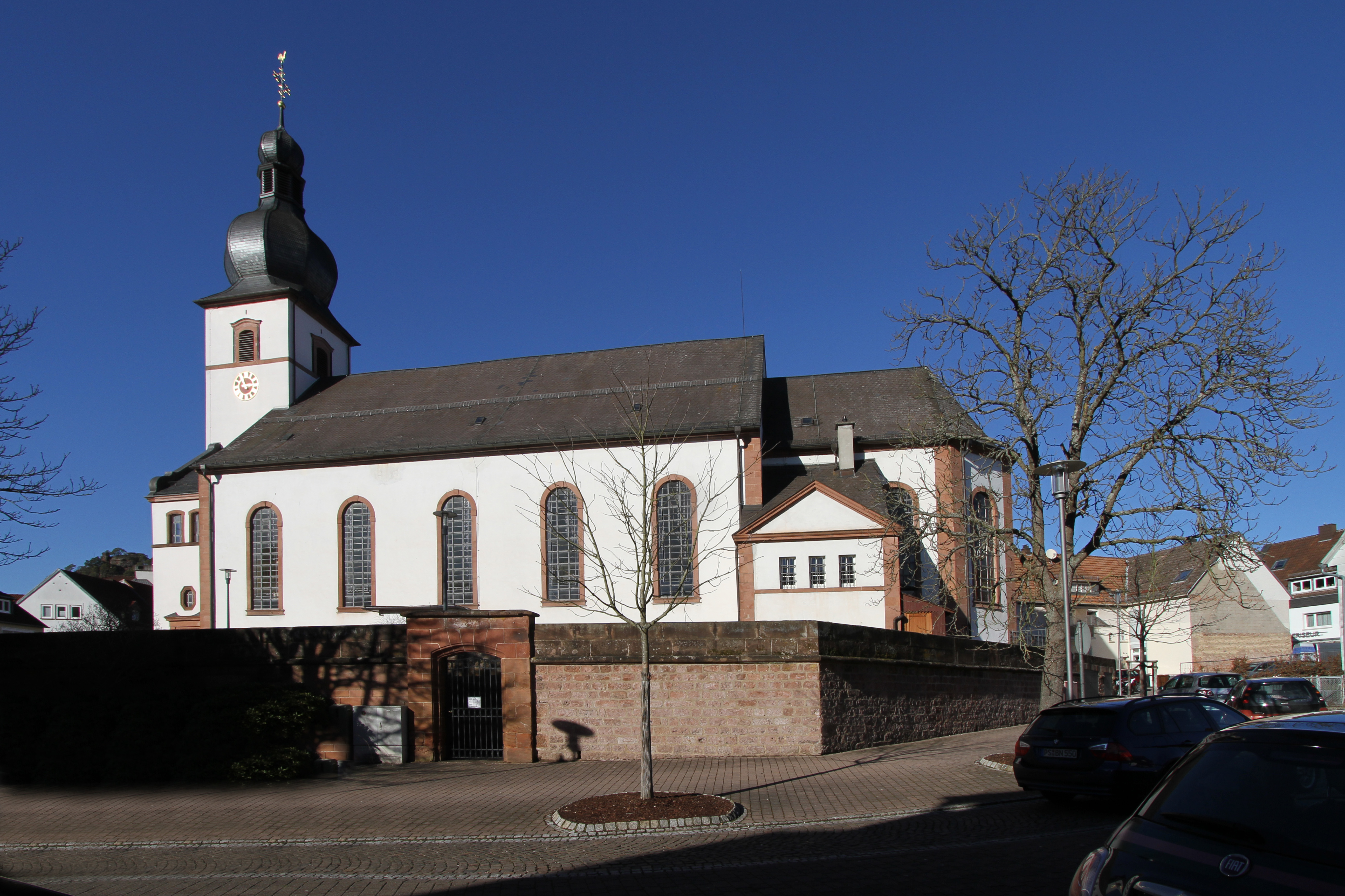 Church of Saint Lawrence in Dahn